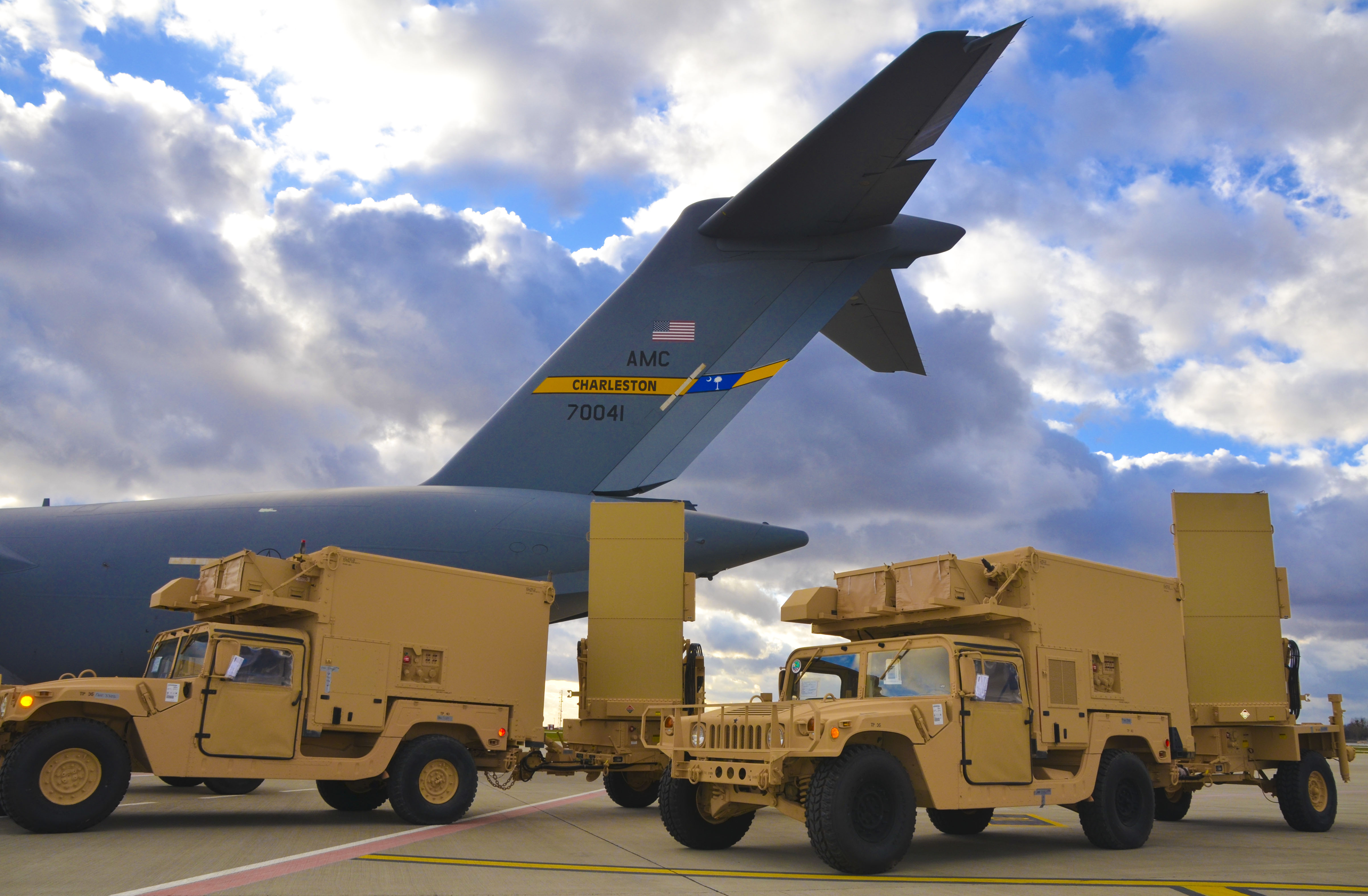 In response to a request from Ukraine, and as part of an ongoing effort to bolster Ukraine's defense and internal security operations the United States delivered two AN/TPQ-36 radar systems to Ukraine Nov. 14, 2015, at a ceremony in Lviv, Ukraine. Ukrainian President Petro Poroshenko had the opportunity to review the equipment, and was briefed by U.S. military personnel on its capabilities. The radar systems delivered will help defend Ukrainian military personnel and civilians against rocket and artillery attacks, which have historically been the most lethal threat to Ukrainian personnel and civilians. (U.S. Army photo by Staff Sgt. Adriana Diaz-Brown, 10th Press Camp Headquarters)